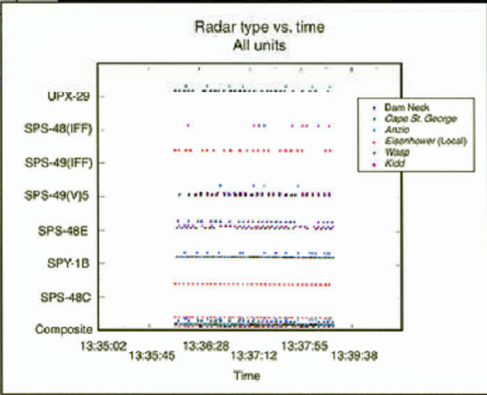 Cooperative Engagement Capability composite track